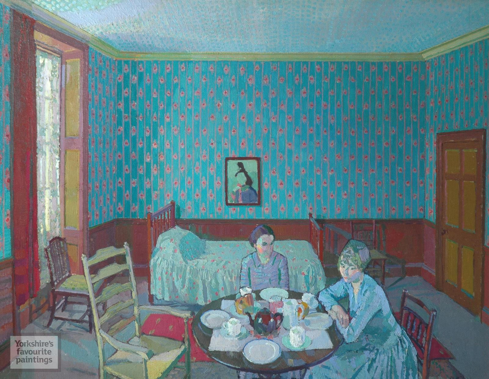 Tea_in_the_Bedsitter